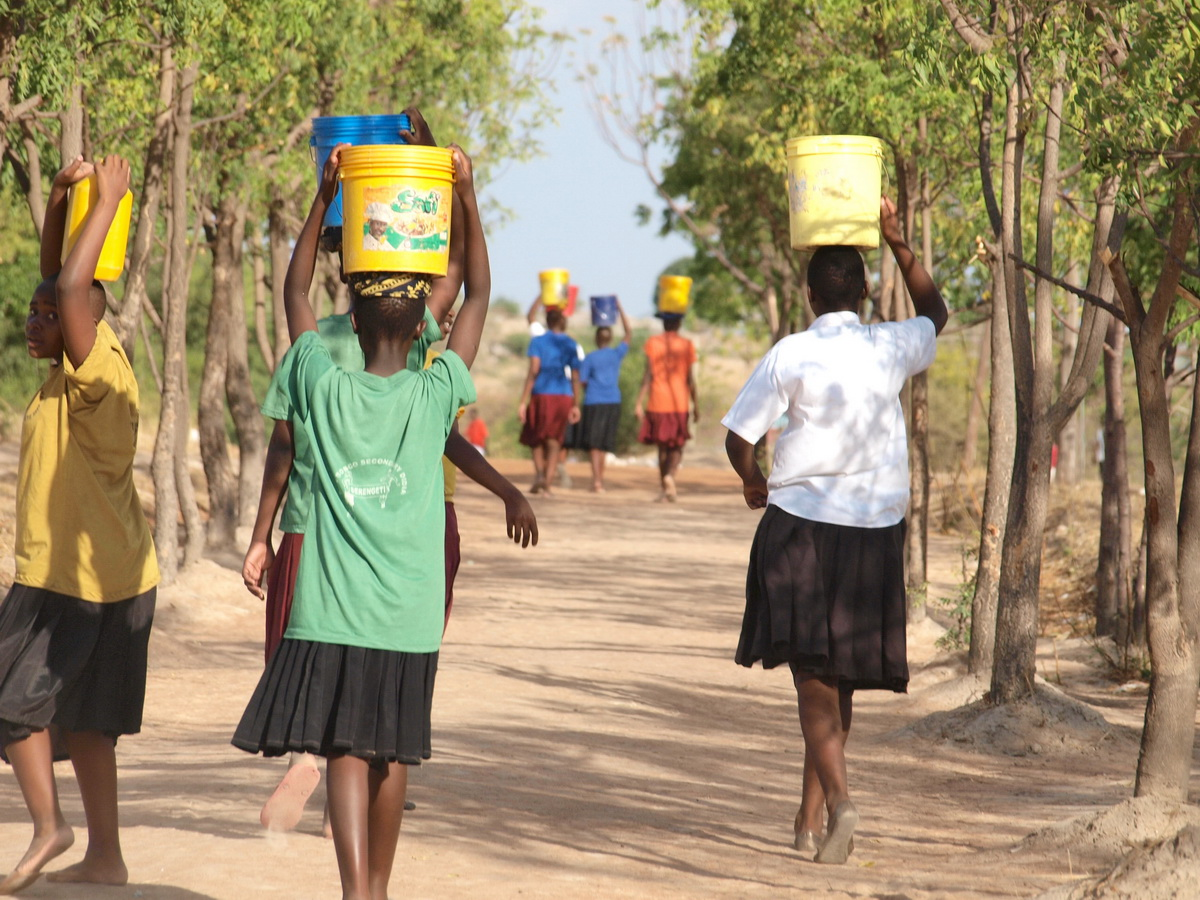 Shinyanga town - home-coming from the watersource